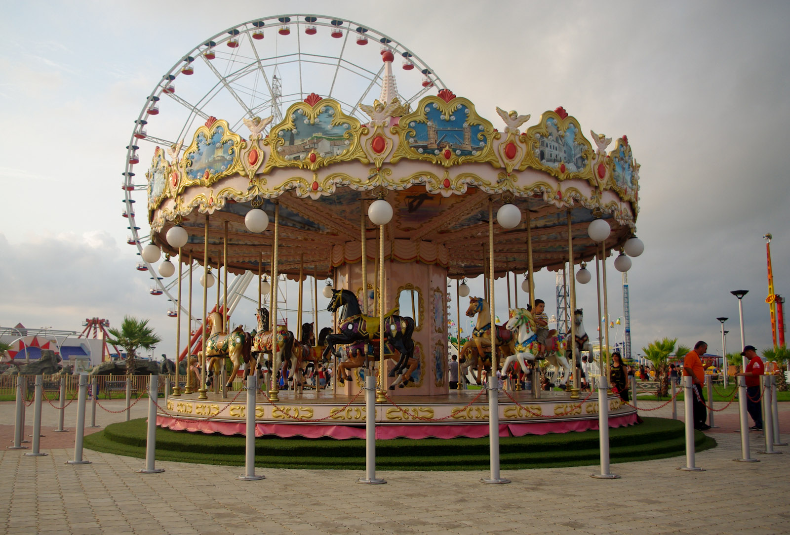 Merry-Go-Round in Batumi amusement park